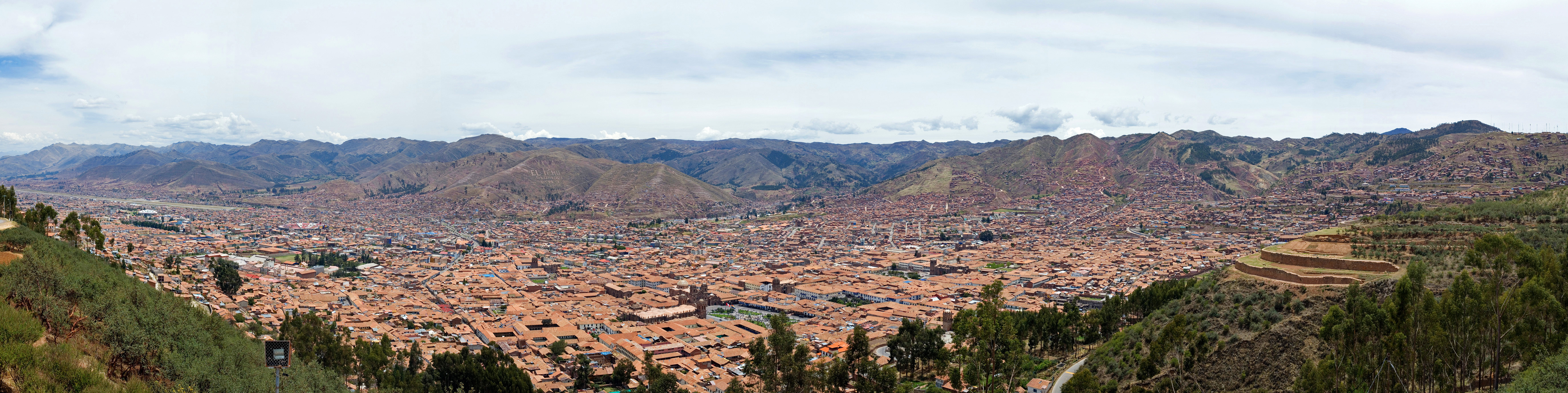 A panoramic image of Cuzco, Peru. This is an 8x1 panoramic stich taken from Christo Blanco.